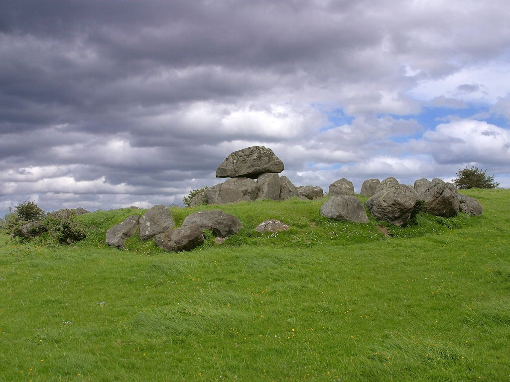 One of the Carrowmore tombs in Ireland. Taken June 6, 2002, with a Canon D60 camera. Photographer Jon Sullivan